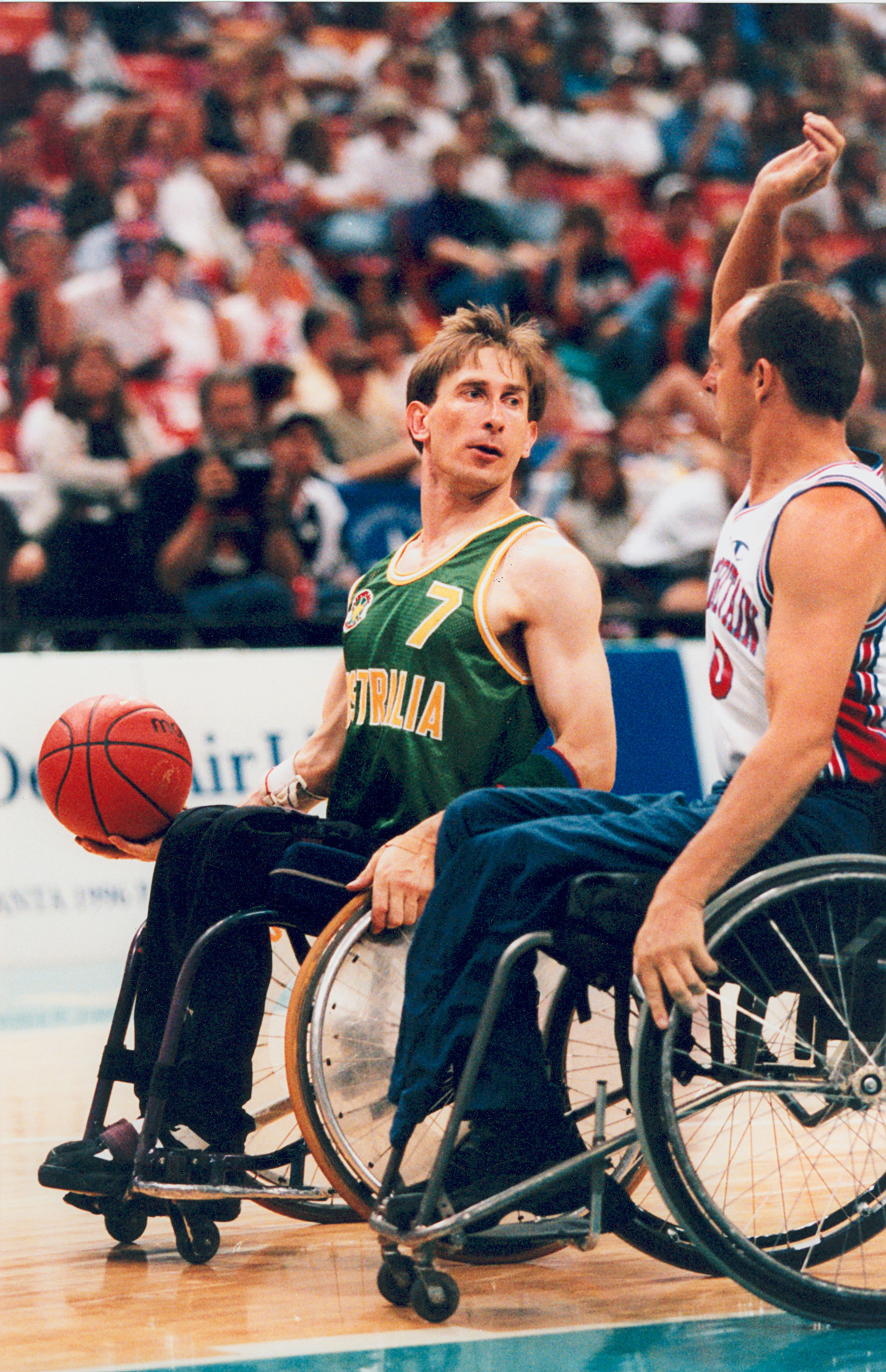 Australian men's wheelchair basketballer Sandy Blythe looks to make a pass in the gold medal game against Great Britain at the 1996 Atlanta Paralympic Games